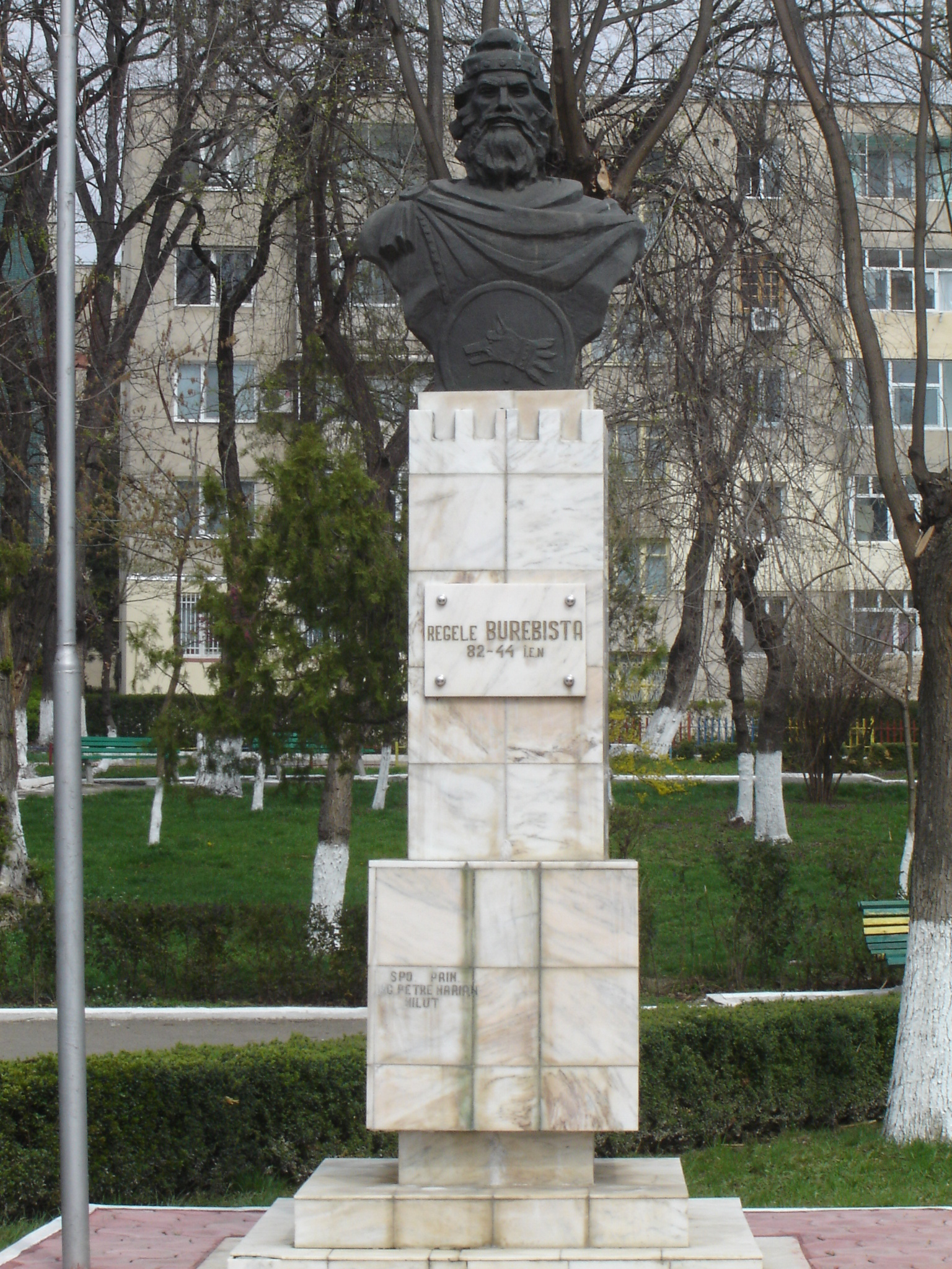 Statue of the Dacian King Burebista (ruled 82-44 BC) in Călăraşi, Romania.